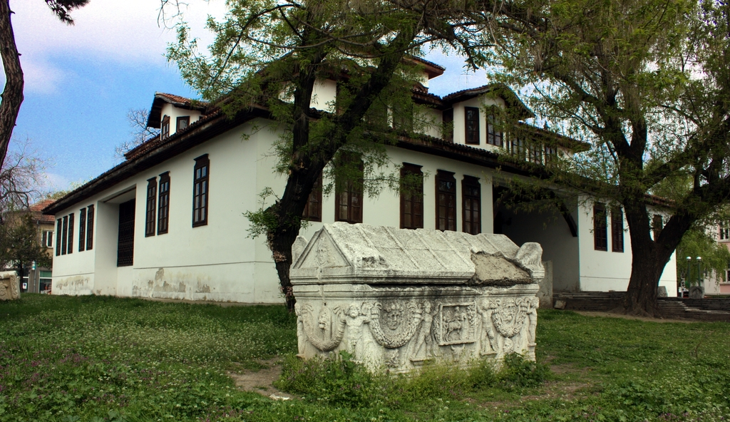 The Konaka museum, the historical museum of Vidin.